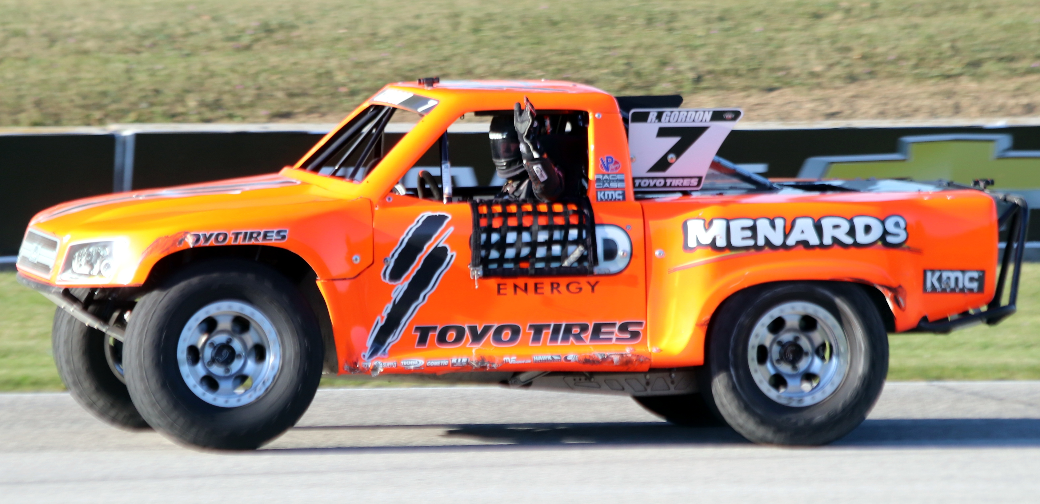 The Stadium Super Truck of Robby Gordon at Road America in round 15.